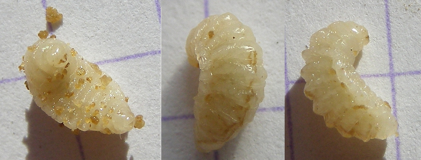 Larva of Eurytoma amygdalis, found in an almond (Prunus dulcis)in winter. The parasitized fruits remain on the tree.